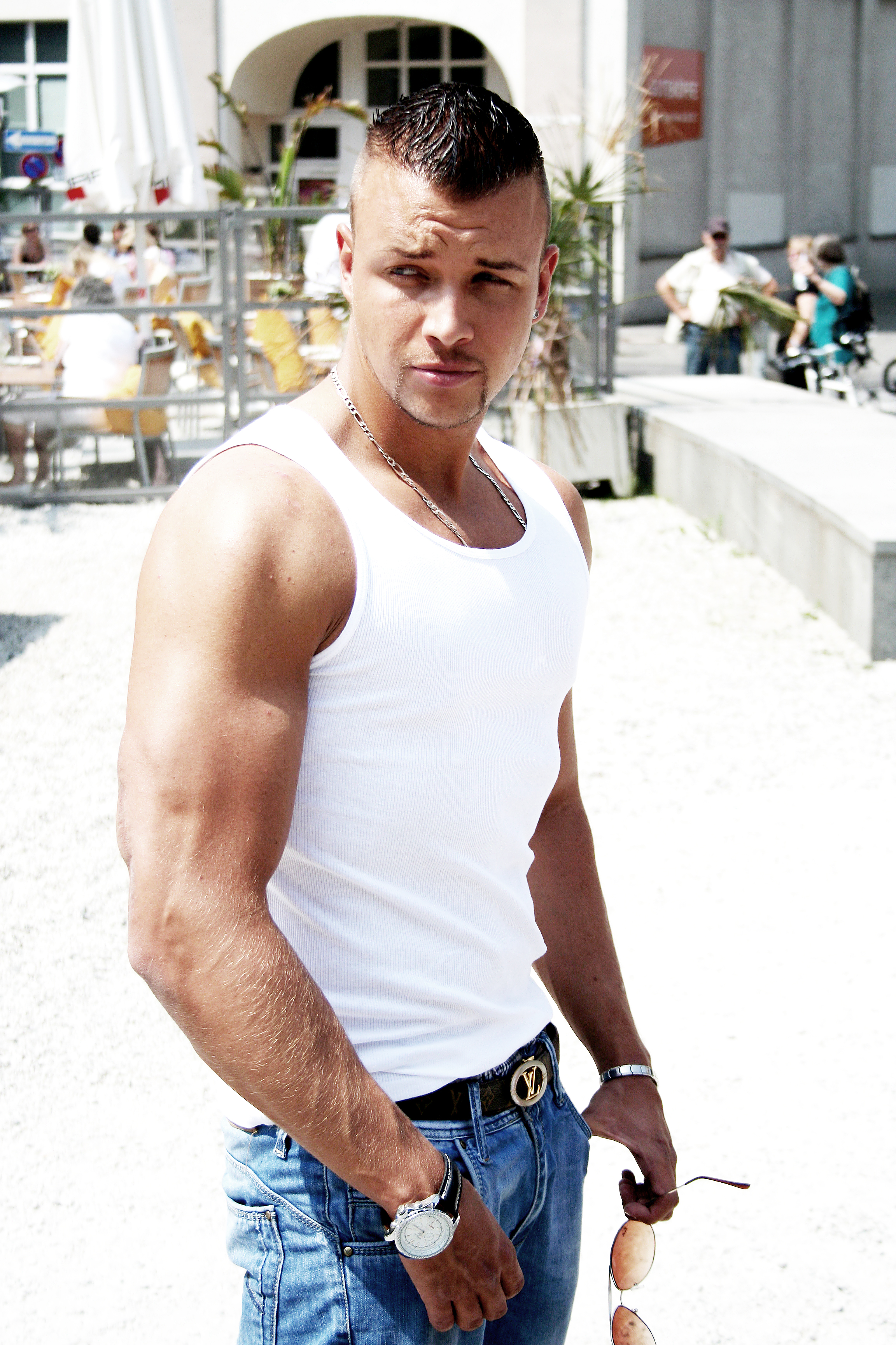 Pressefoto Kollegah (2011)